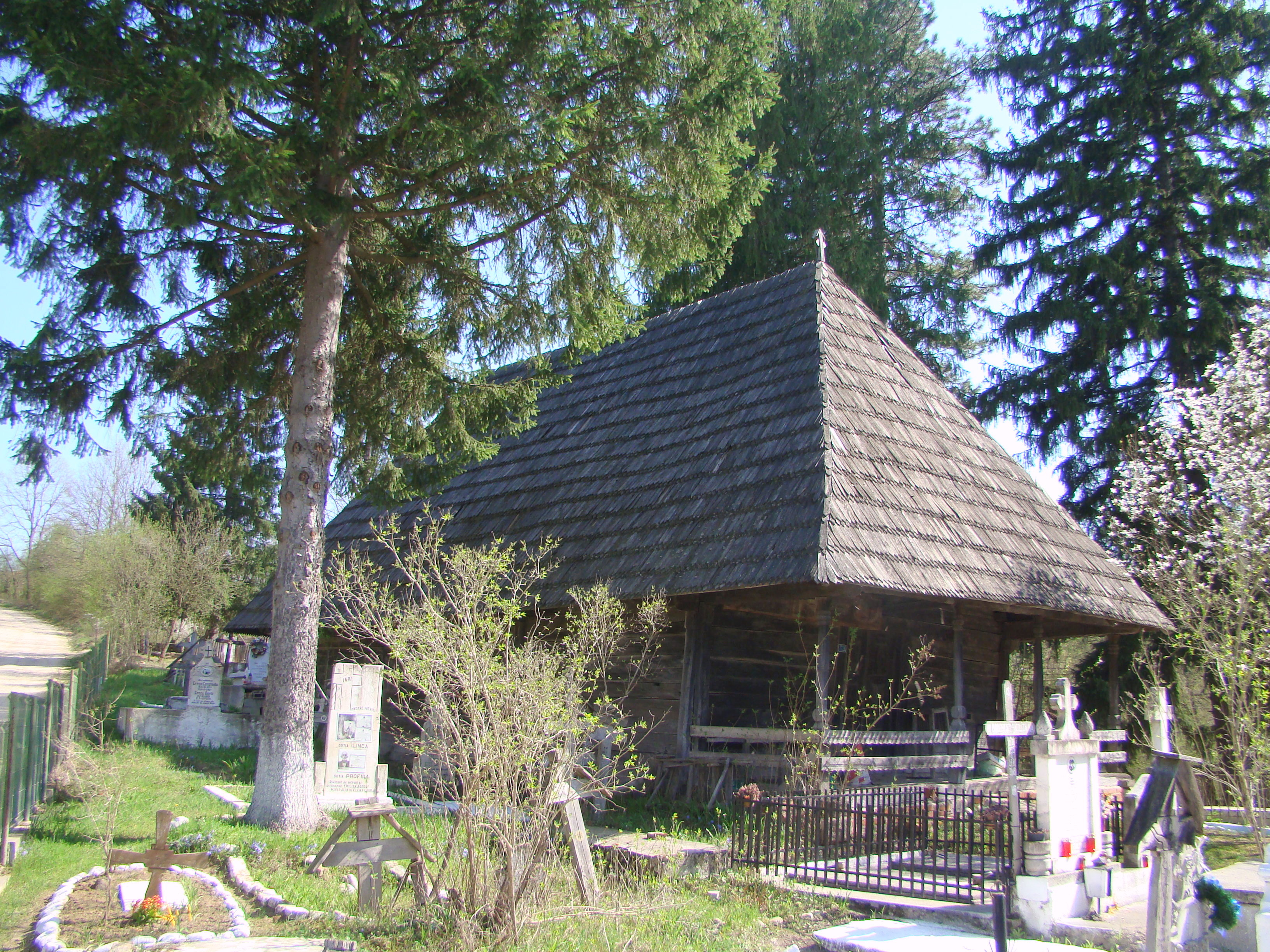 Wooden church in Tupșa, Gorj county, Romania